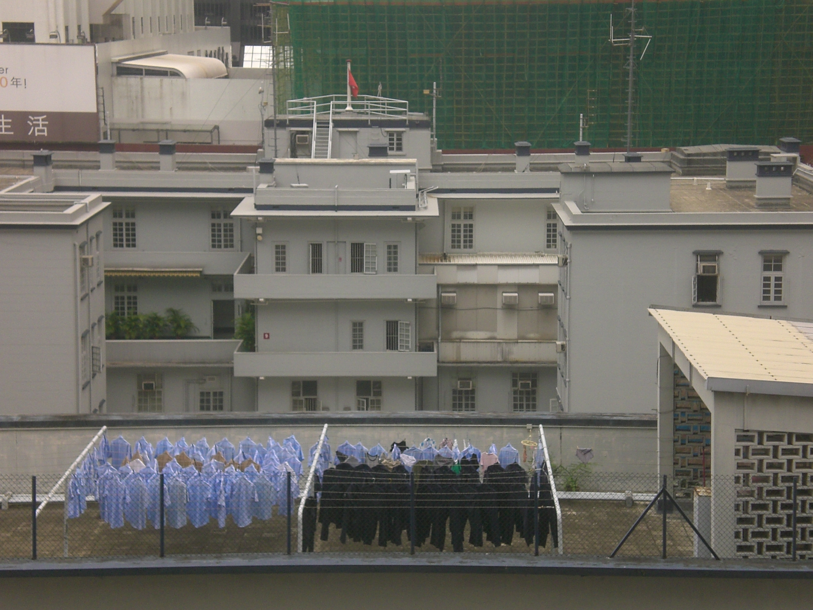 灣仔警署及zh:宿舍天台(View from the Lockhart Road Public Library)